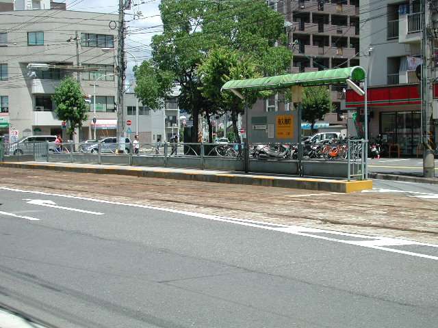 Hiroshima Elctric Railway Funairi-Minamimachi Station